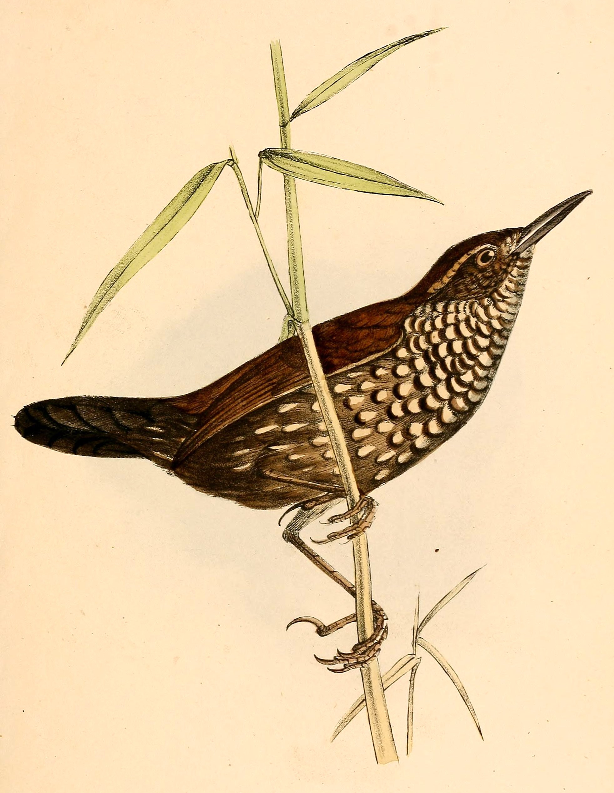 Lochmias squamulata = Lochmias nematura (Sharp-tailed Streamcreeper)